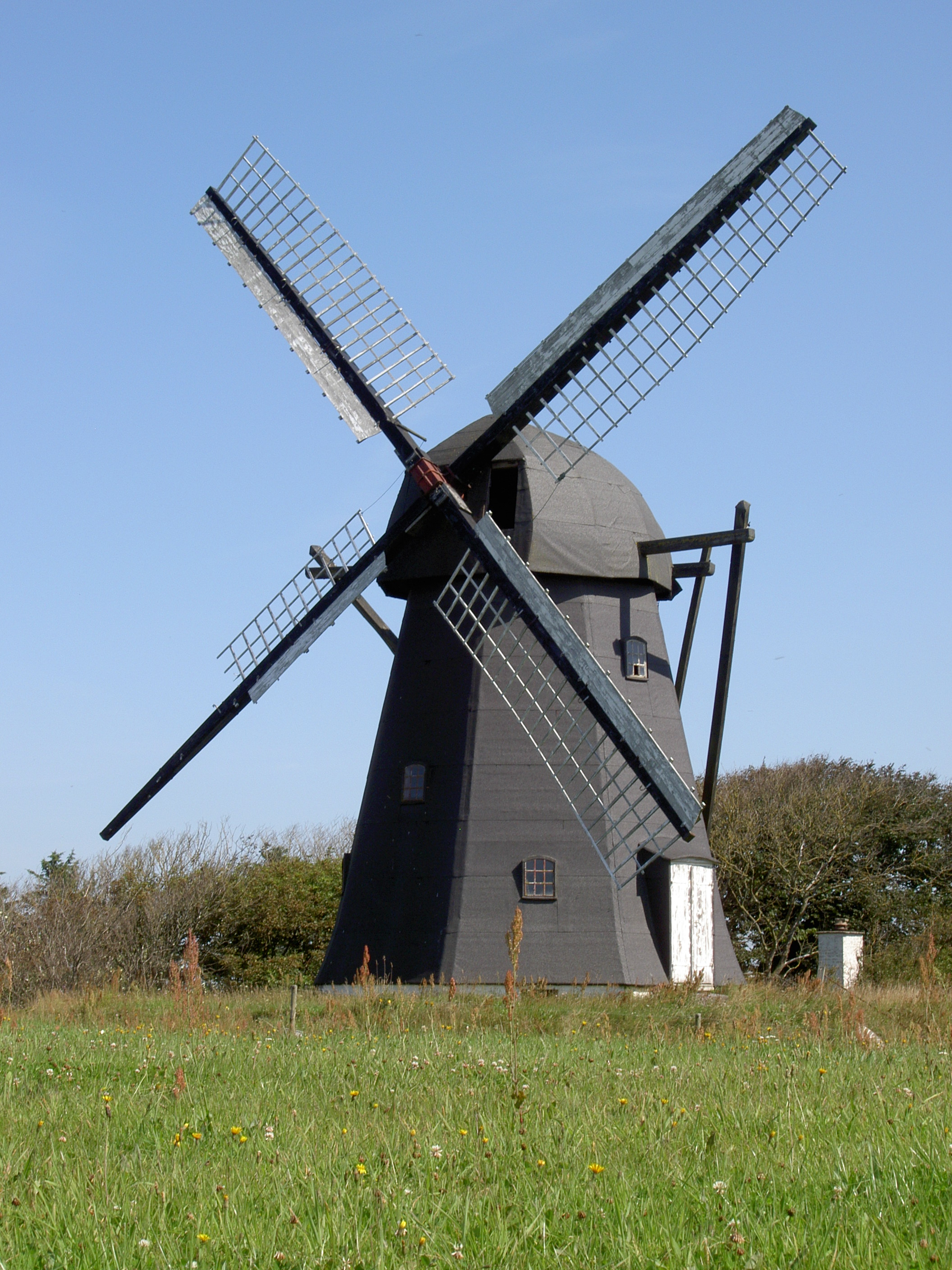 Vennebjerg Mill in Lønstrup, Denmark